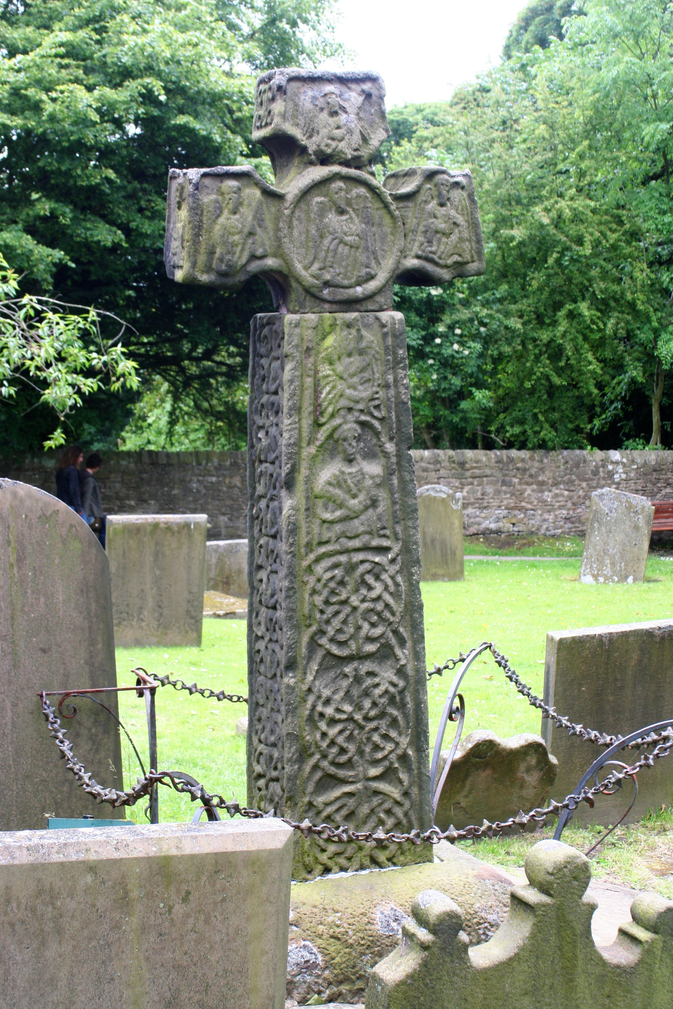 West side of the Anglo-Saxon celtic cross in the churchyard of Eyam, Derbyshire, England. According to the sign next to the cross, it is from the 8th century.